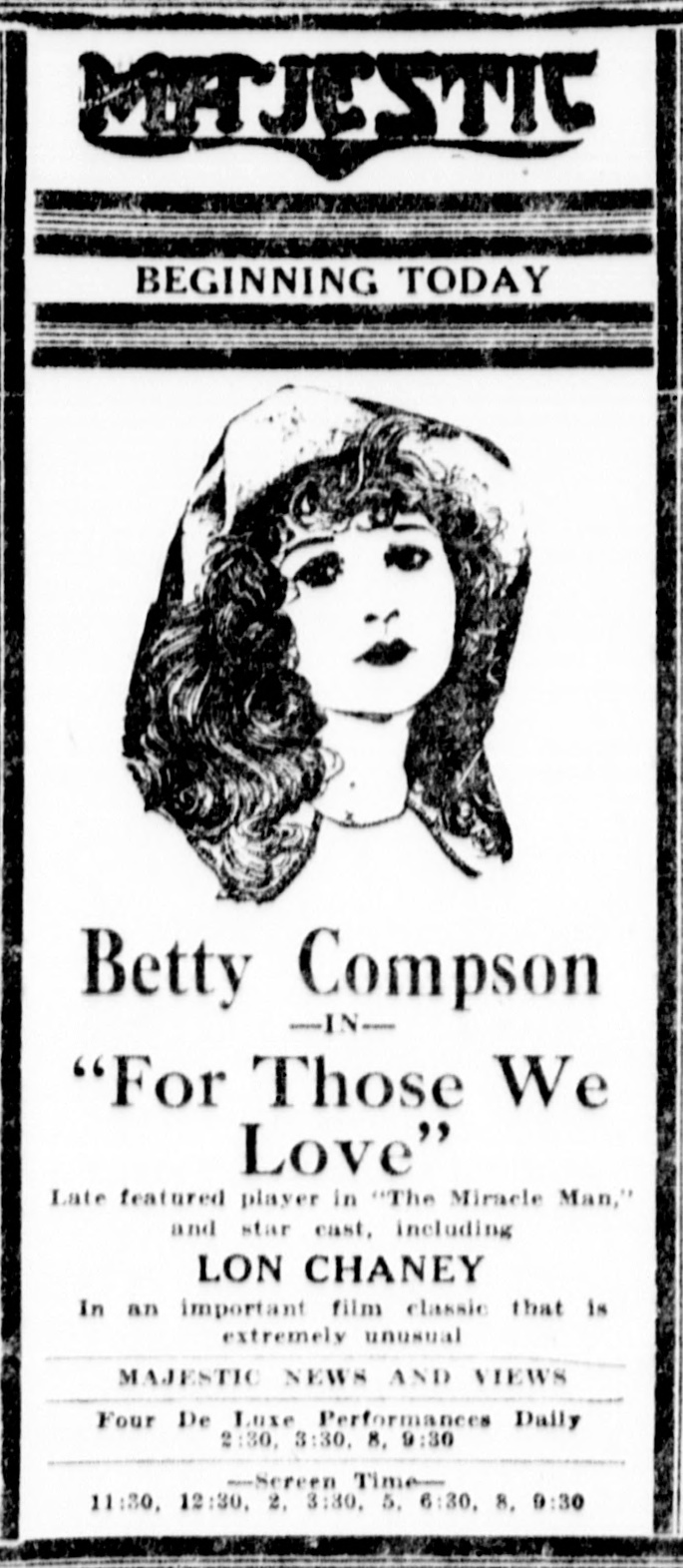 For Those We Love is a lost 1921 American silent romantic drama film produced by and starring Betty Compson and Lon Chaney. This is a newspaper advert.